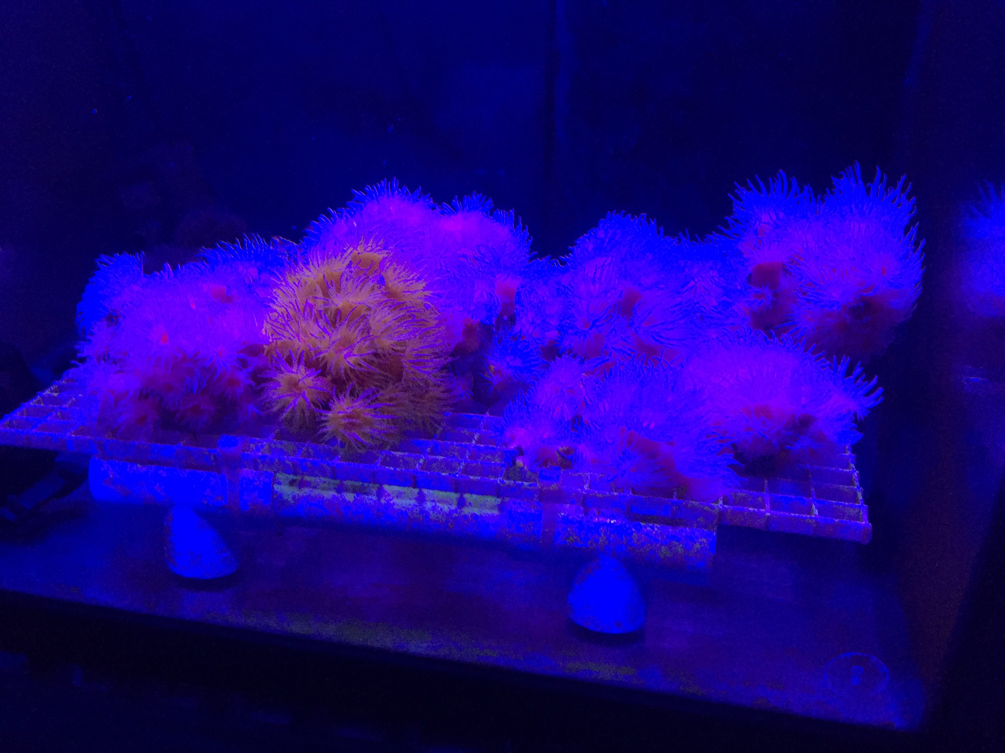 Taken at Ānuenue fisheries research center of a rare deep sea Hawaiian coral